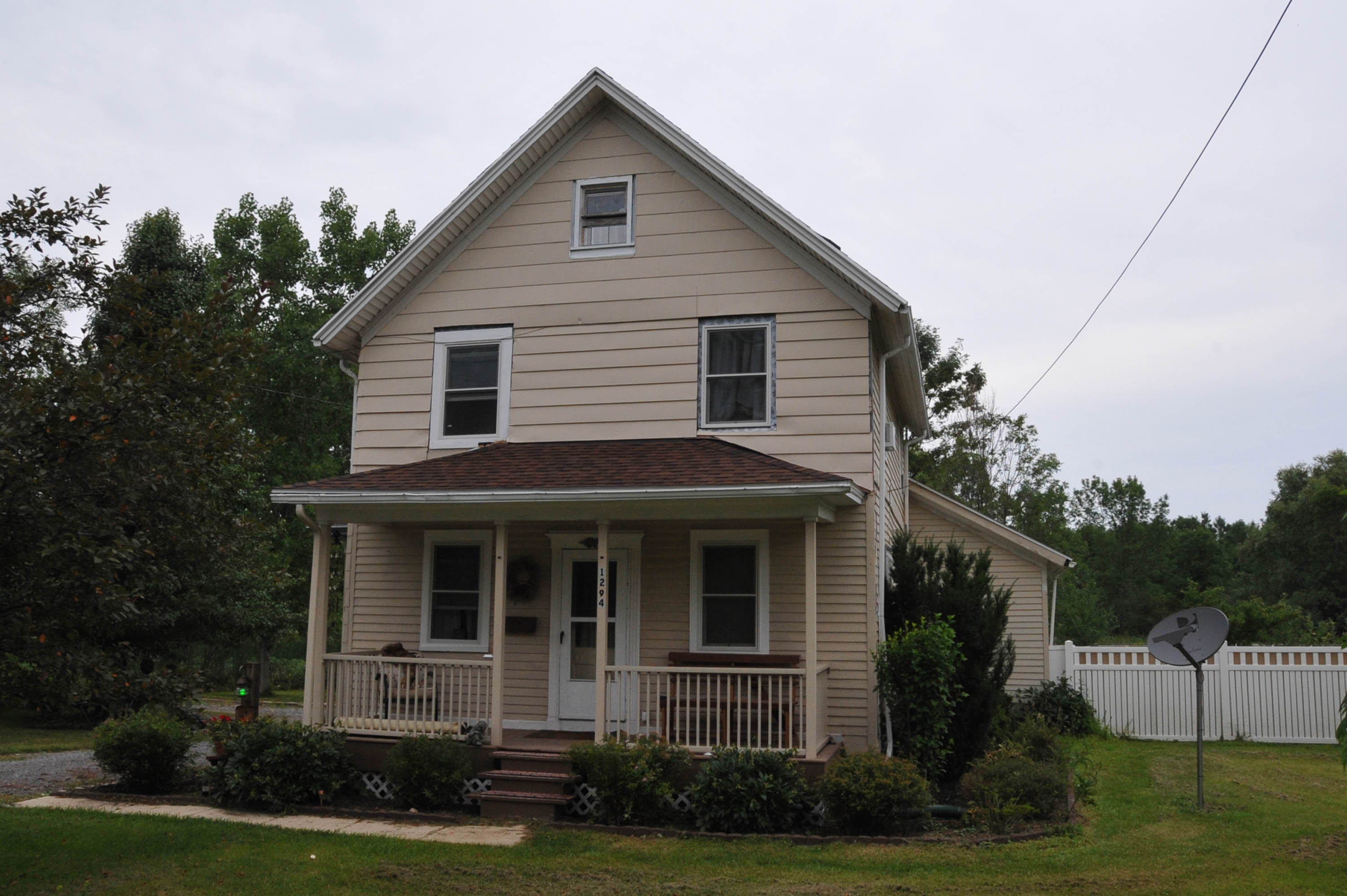 FEASEL WAS A GERMAN IMMIGRANT WHO BECAME A CIVIL WAR VETERAN AND RETURNED TO BECOME A SUCCESSFUL FARMER IN THE AREA HE WORKED AS A YOUTH. HE CAME TO THE U.S. IN 1854. HOUSE IS ALSO A RARE SURVIVING EXAMPLE OF A MID NINETEENTH CENTURY PLANK AND POST FRAMED HOUSE IN THE TOWN OF HENRIETTA.